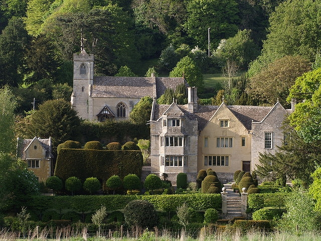 Owlpen Original description: Owlpen To the left of the manor (ST7998 : Owlpen Manor) is Holy Cross church, dramatically restored in the C19, and Court House (described by Verey (Pevsner) as a gazebo). Between the buildings is the yew parlour, a quadrangle of yews enclosing a little square where events were sometimes held. At the rear rises Owlpen Wood, part of the Cotswold scarp.